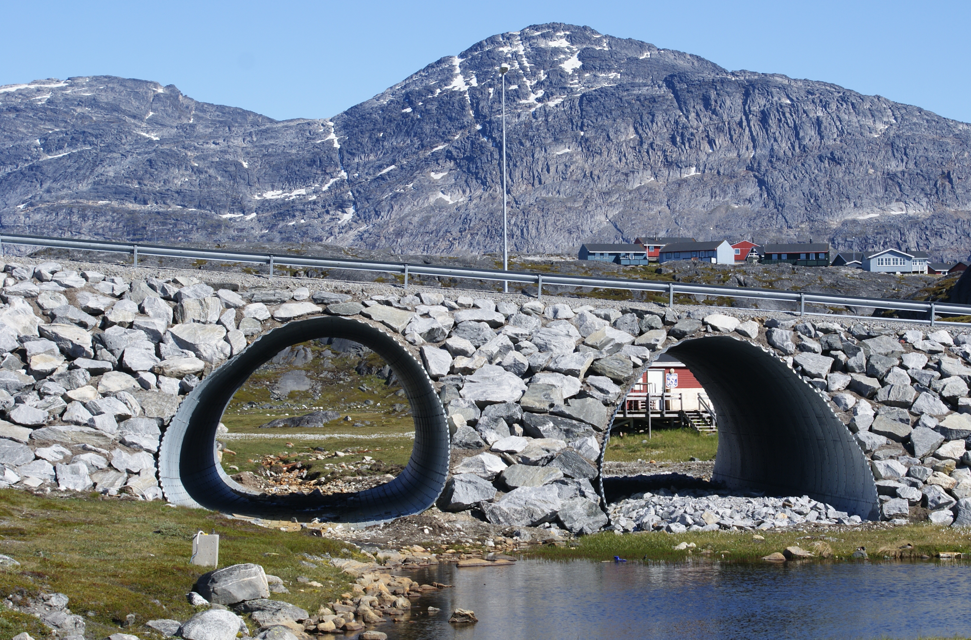 Ukkusissat mountain east-south-east of Nuuk, Greenland. Photographed from the Nuussuaq district of Nuuk.